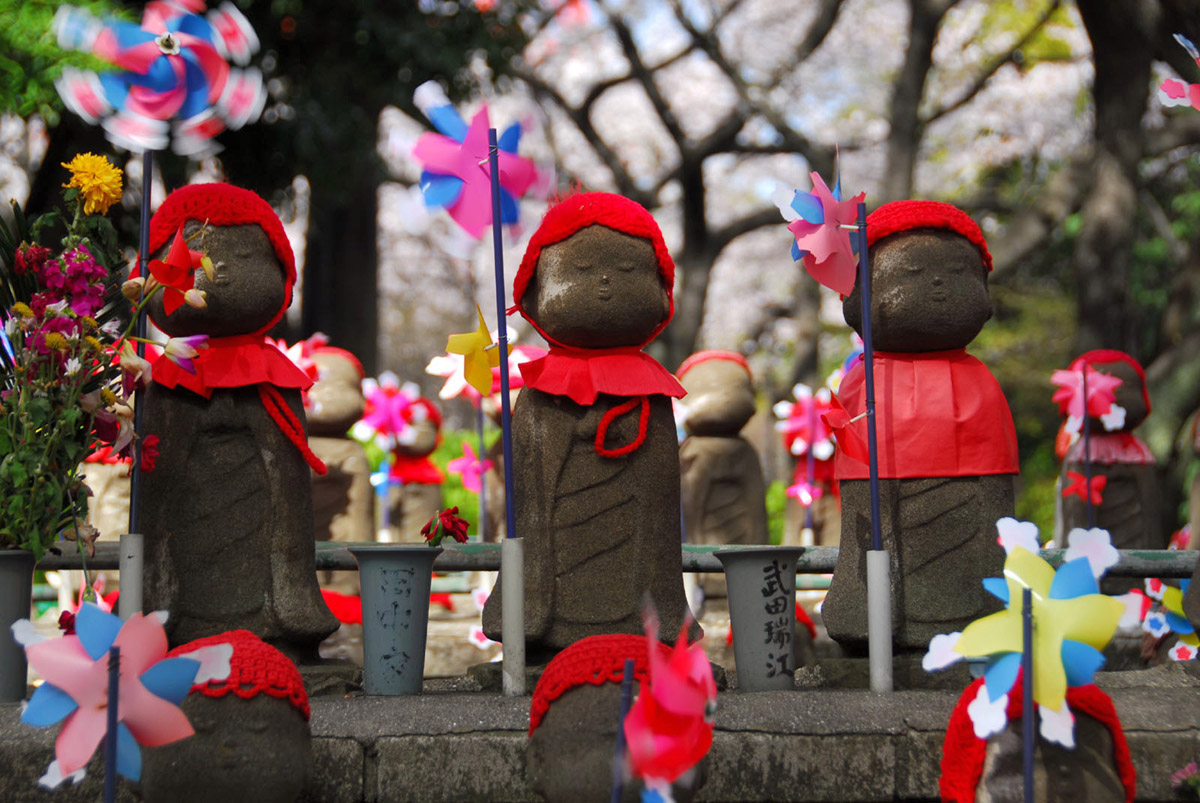 Zōjō-ji, mini "Jizō" in temple garden